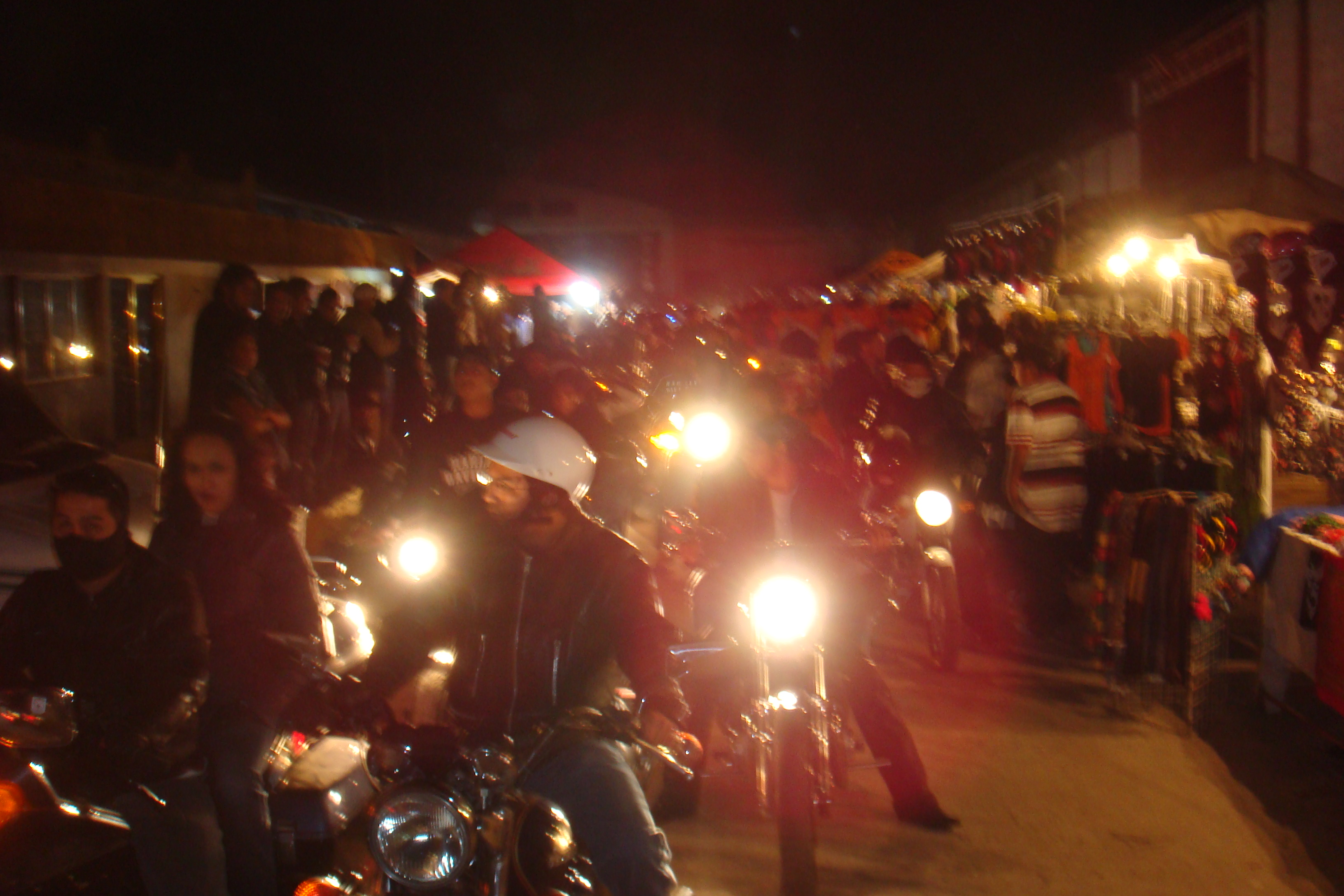 Motofest Jaral del Progreso 2010